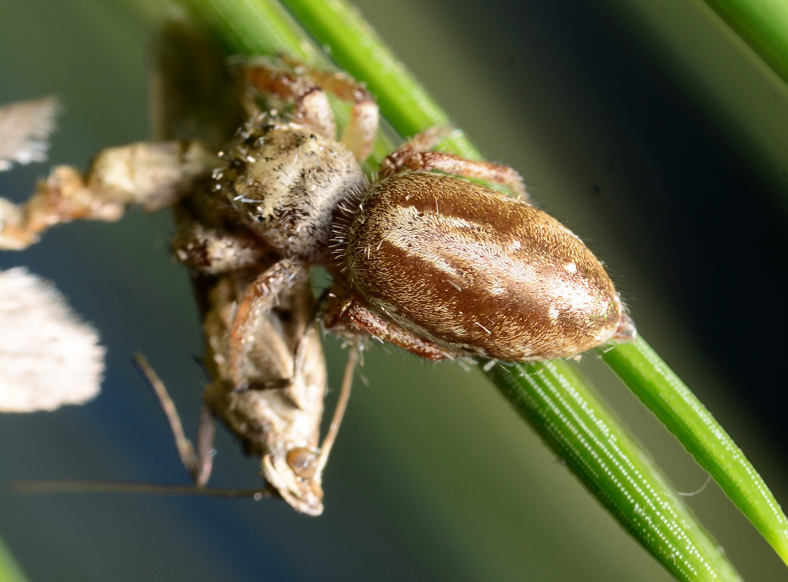 Adult female Eris floridana dorsal